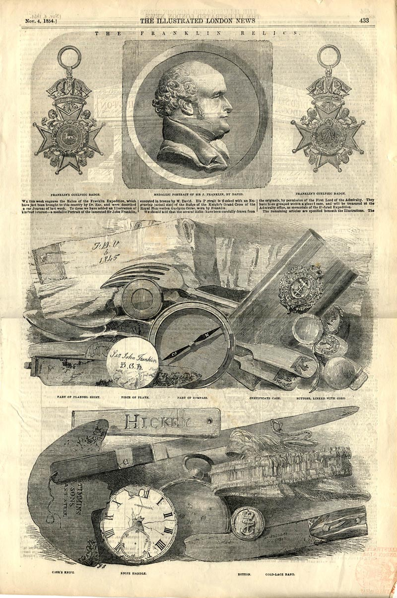 Image of relics of the Franklin 1845 Northwest Passage Expedition from the Illustrated London News, October 1854